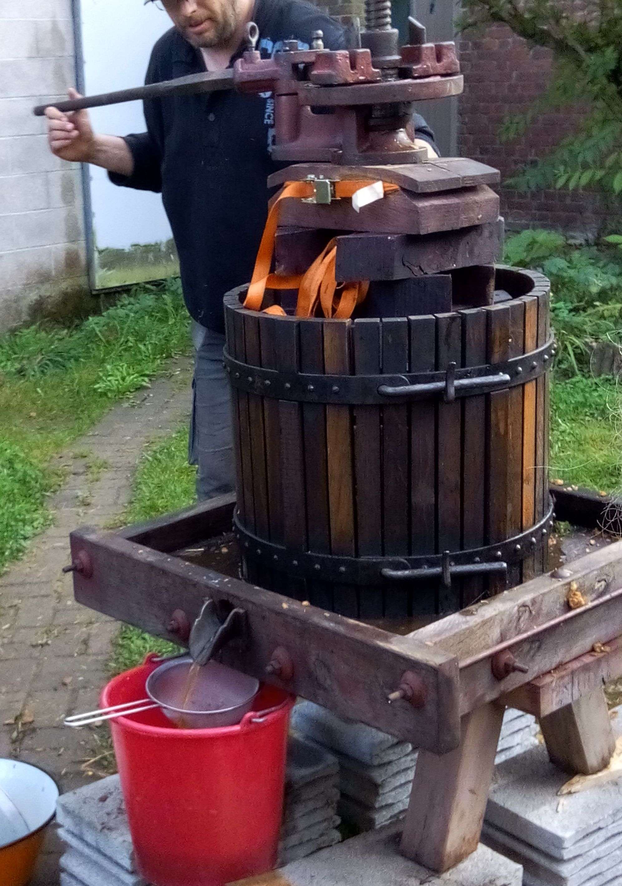 apple press